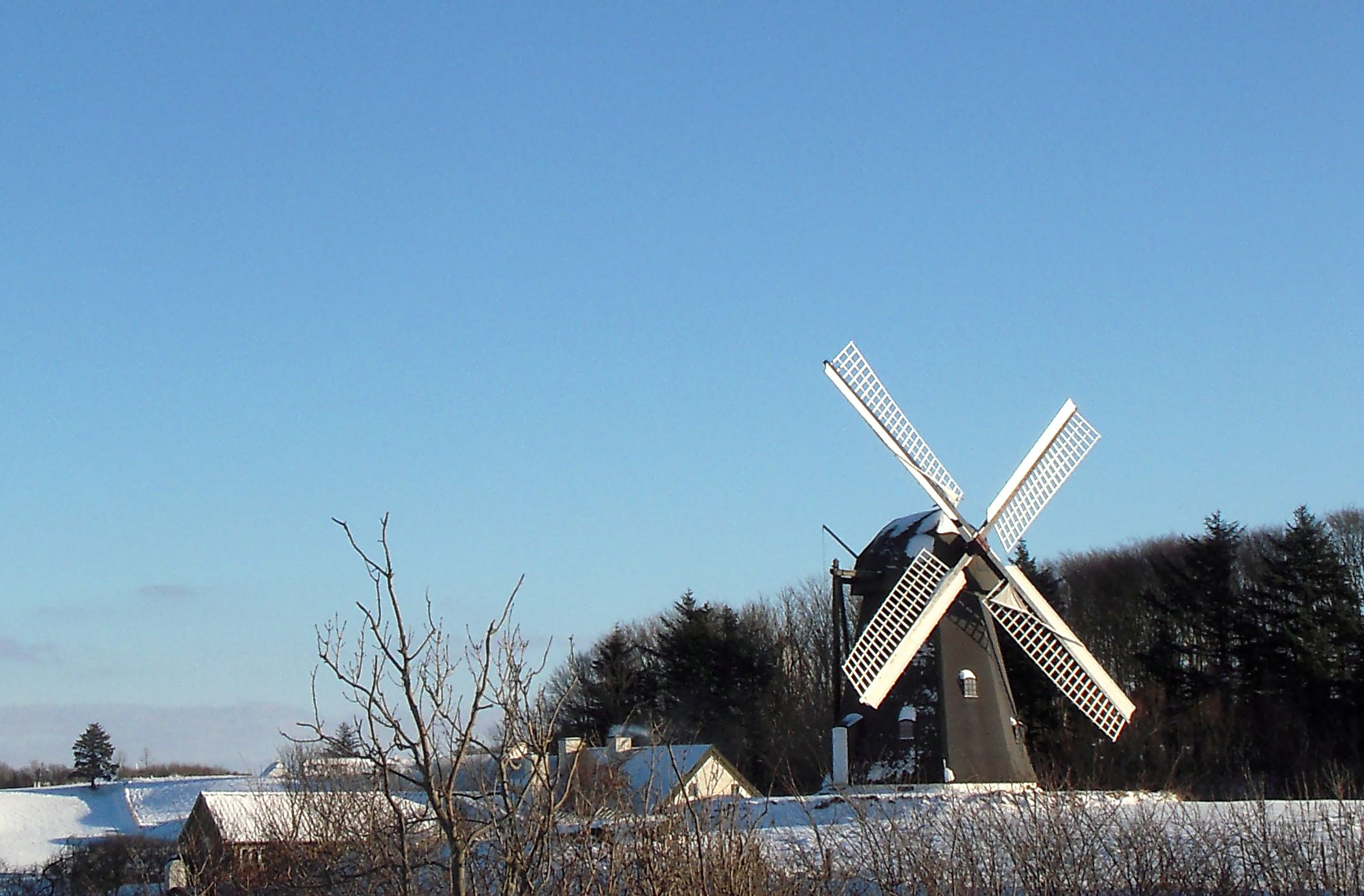 The windmill 'Vennebjerg Mølle' in Vendsyssel, Denmark. January 2013.